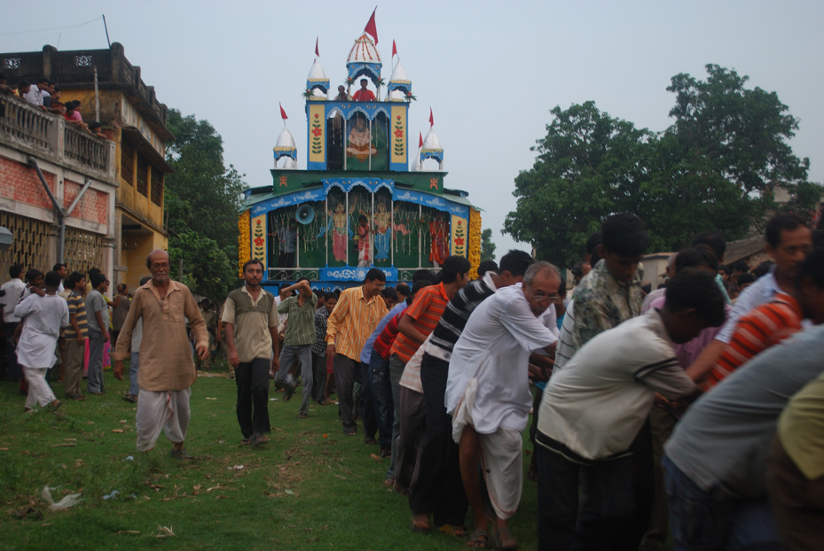 Rajbalhat Rath Yatra